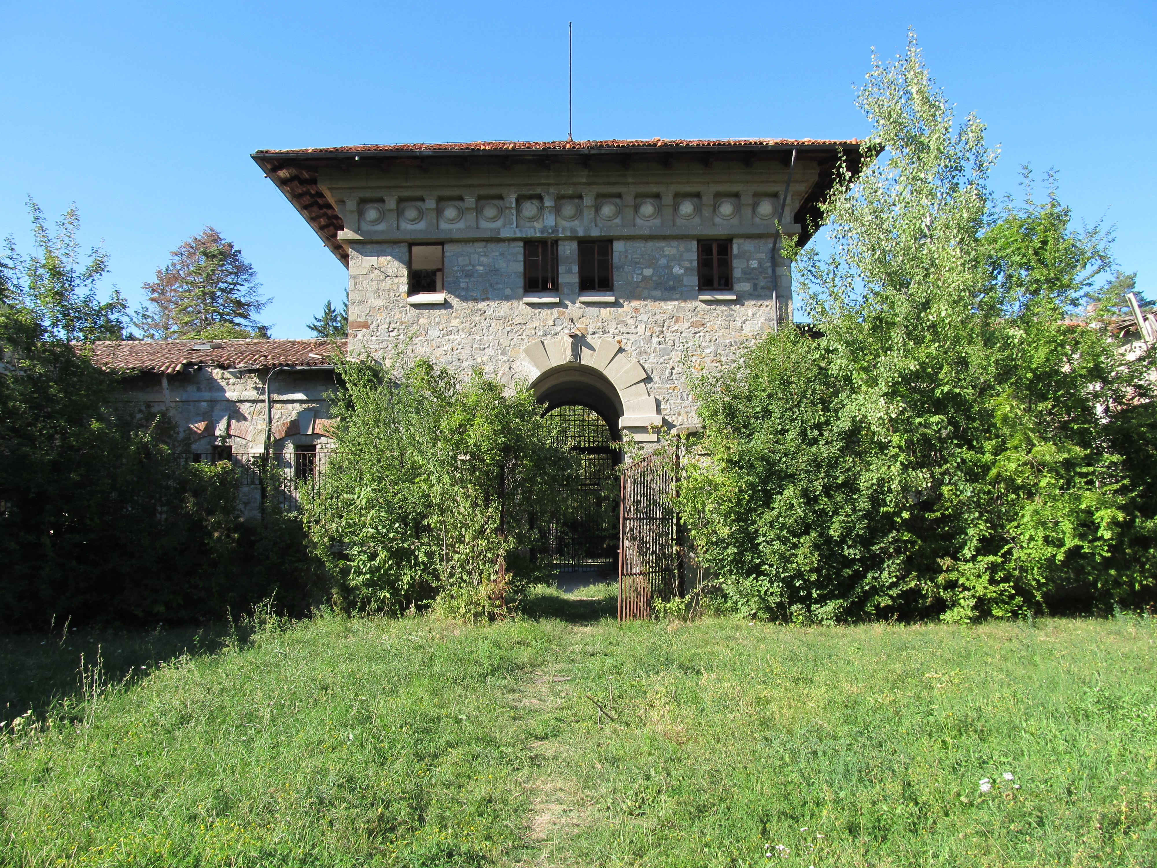 Penitenciarul Doftana 41